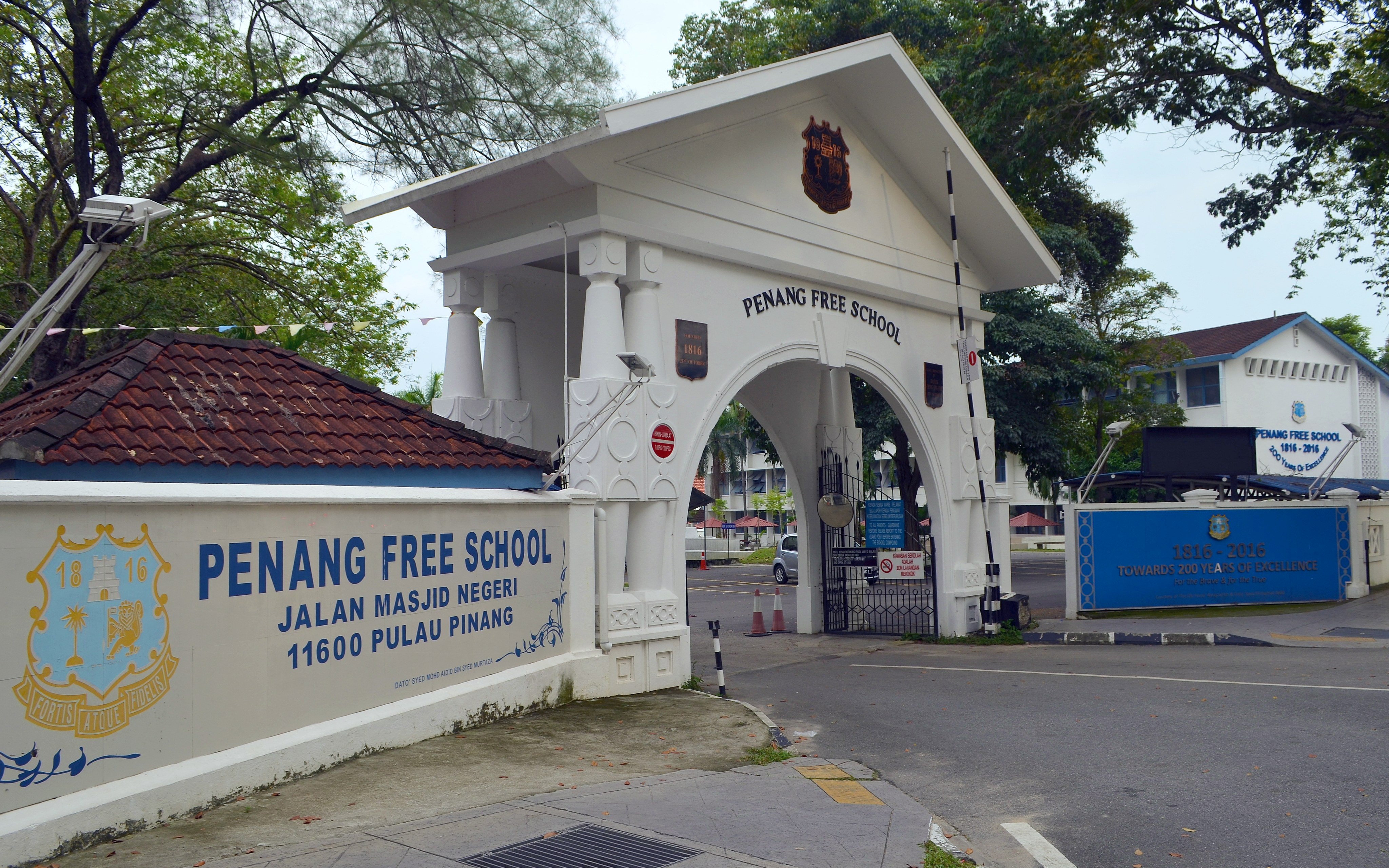 Main gate of Penang Free School in January 2017.